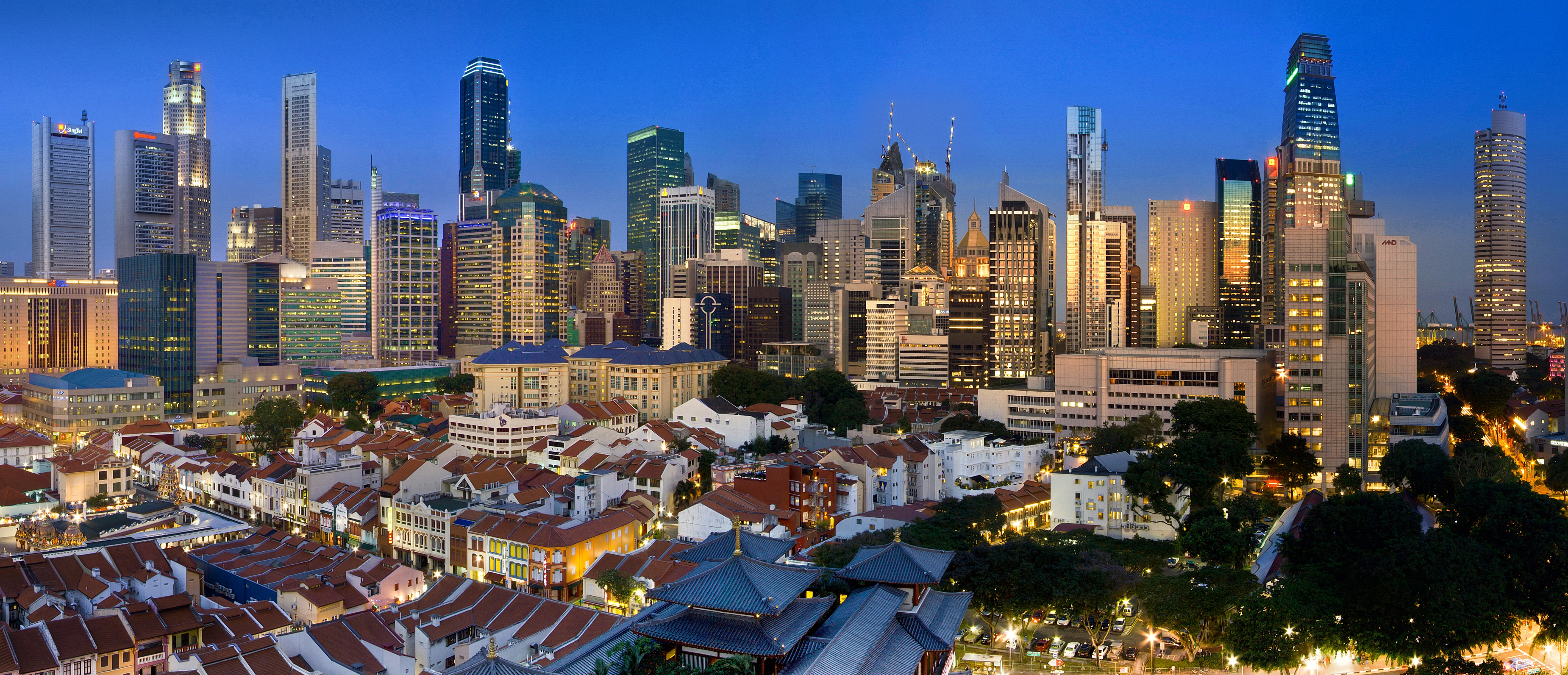 The Singapore Skyline v3